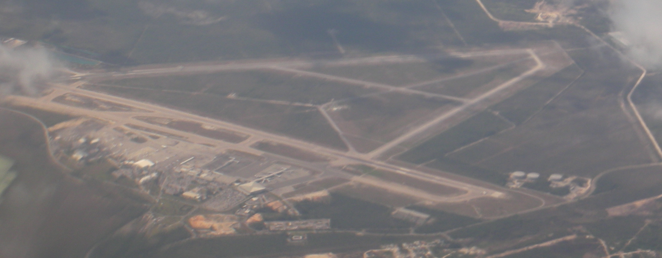 Nassau Airport